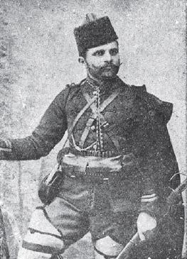 Portrait of IMRO Voevoda Nikola Andreev